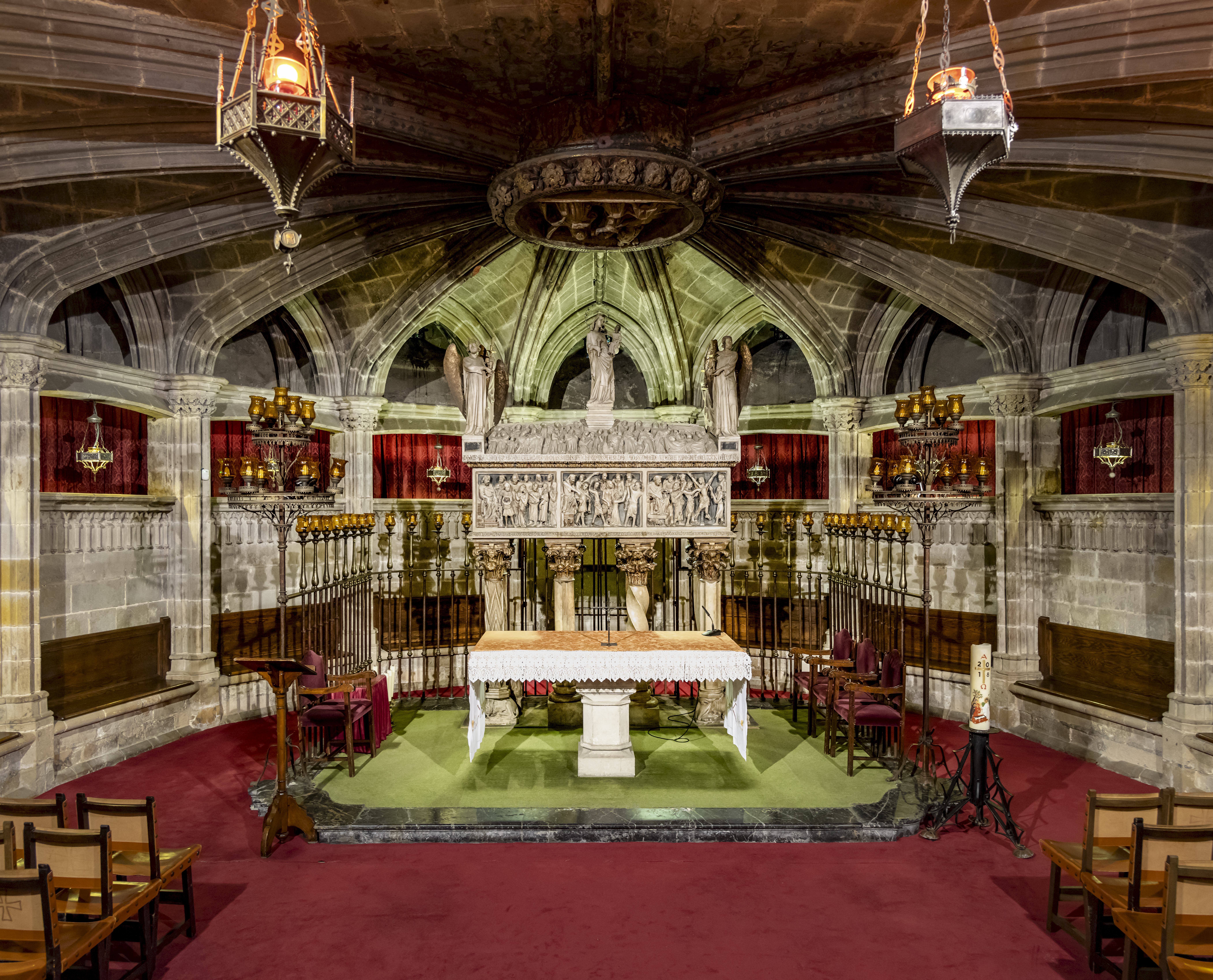 The Cathedral of the Holy Cross and Saint Eulalia in Barcelona. Crypt of Eulalia of Barcelona by Jaume Fabre, at the beginning of the 16th century.